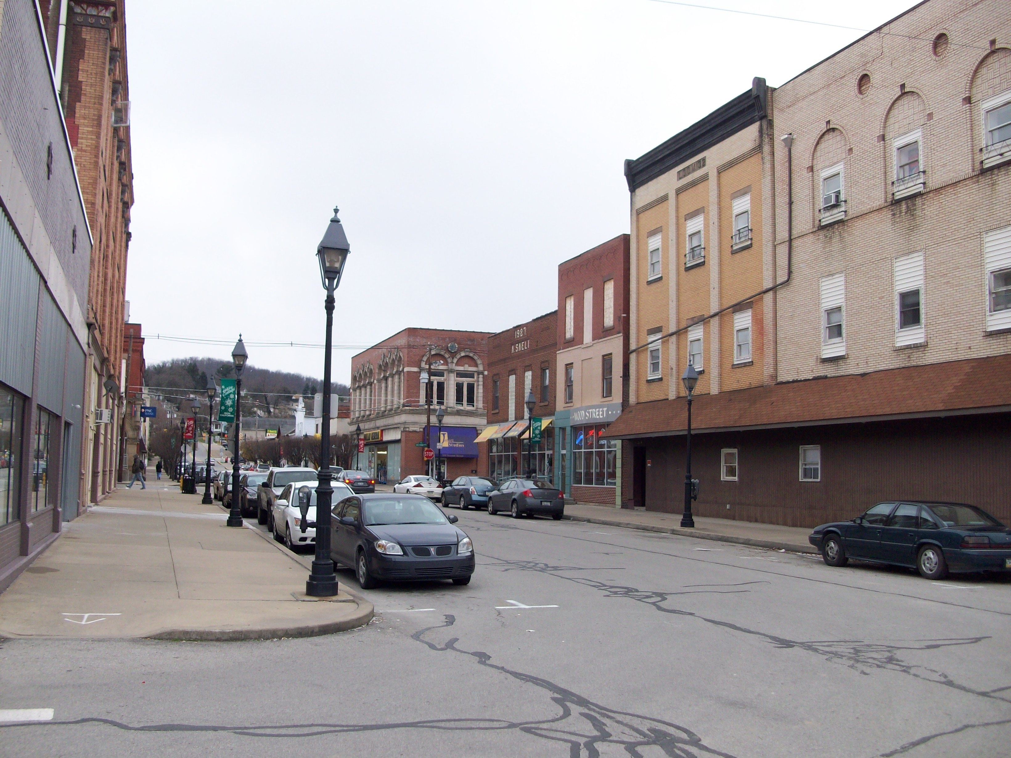 Wood Street, California, Pennsylvania